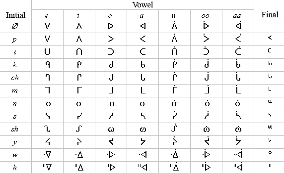 The Ojibwe syllabary History of Image:Ojibwe Syllabary.jpg 2006-04-01T05:37:40Z Psychonaut (Talk | contribs) ( badJPEG This image should be converted to a (Unicode) text table.) 2005-05-10T23:05:26Z Whimemsz (Talk | contribs) (The Ojibwe syllabary )